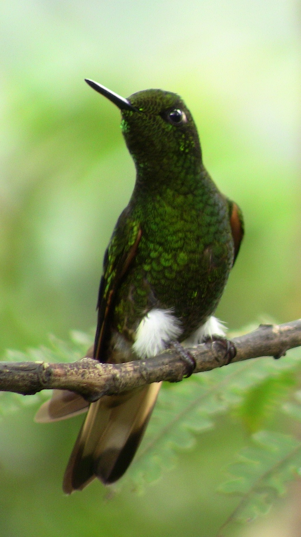 This photo of a Buff-Tailed Coronet was taken on a branch near a hummingbird feeder in Bellevista, the cloud forest resort in Ecuador.